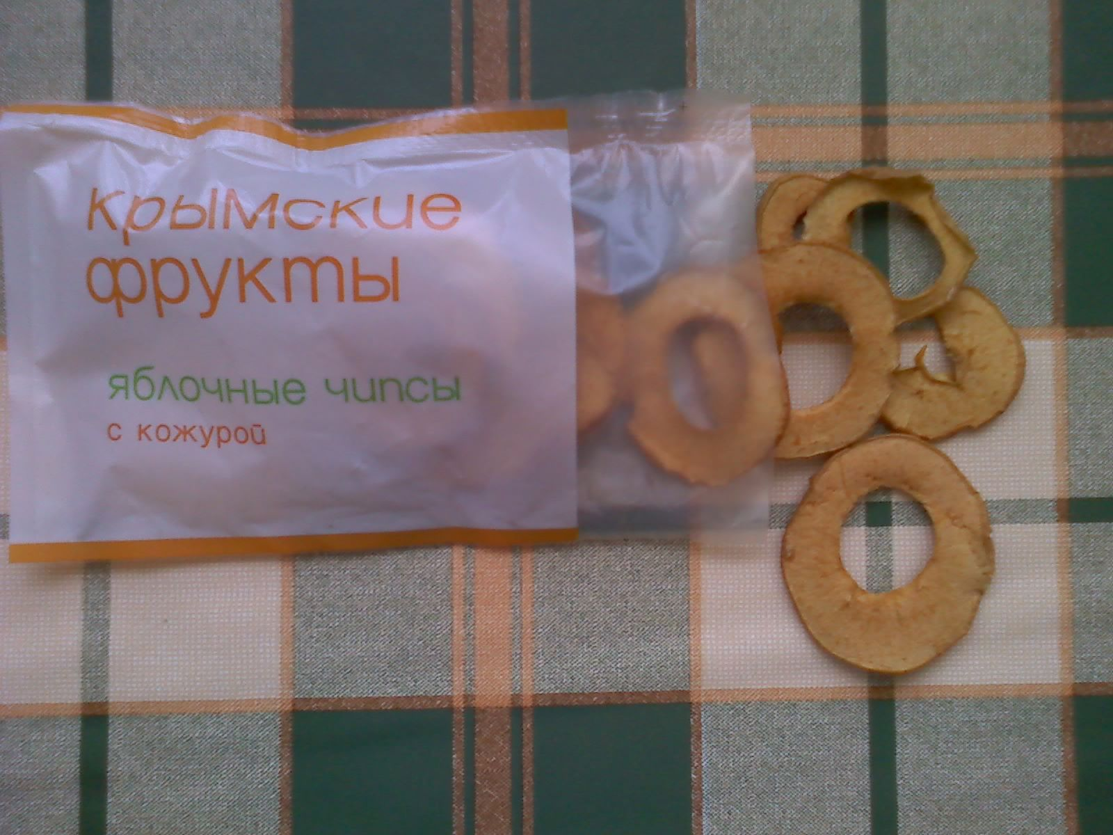 Dried fruit. The inscription on the package: Crimean fruits. Apple chips with the skin.